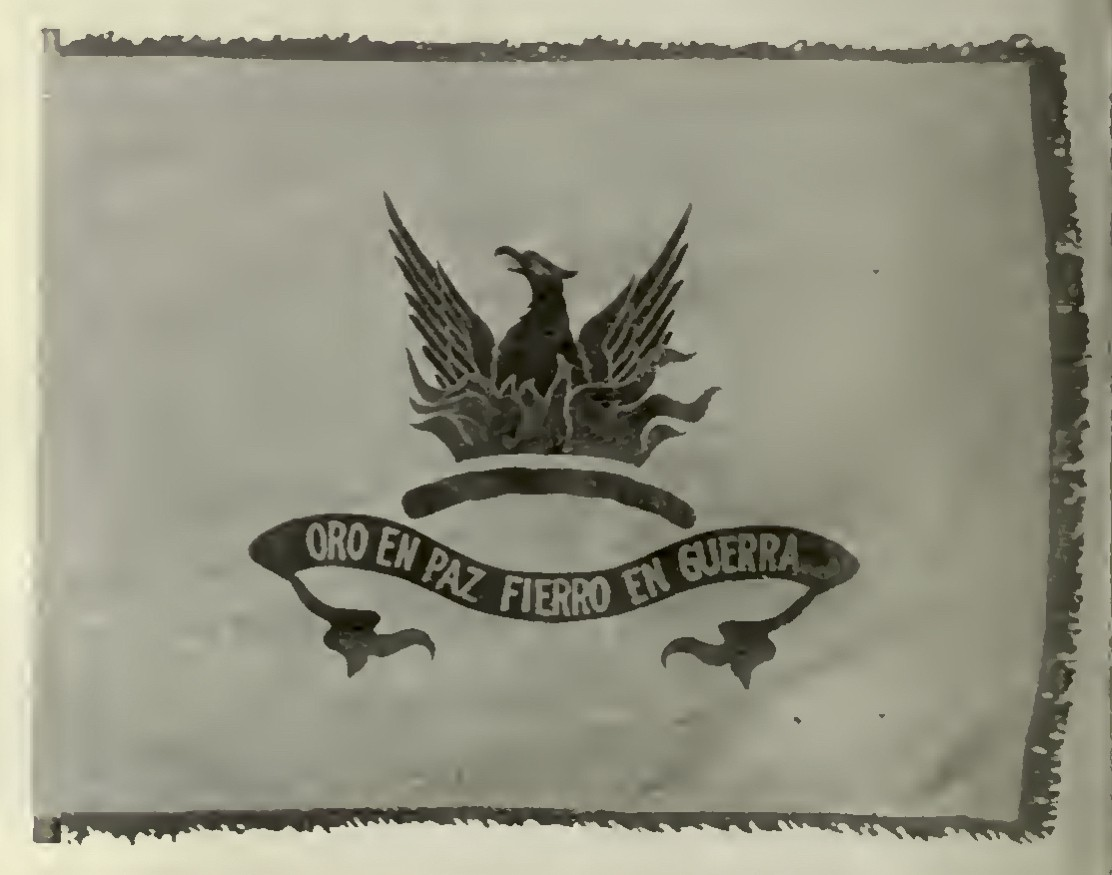 This photograph originally appeared in the Overland Monthly (October 1929). See article at